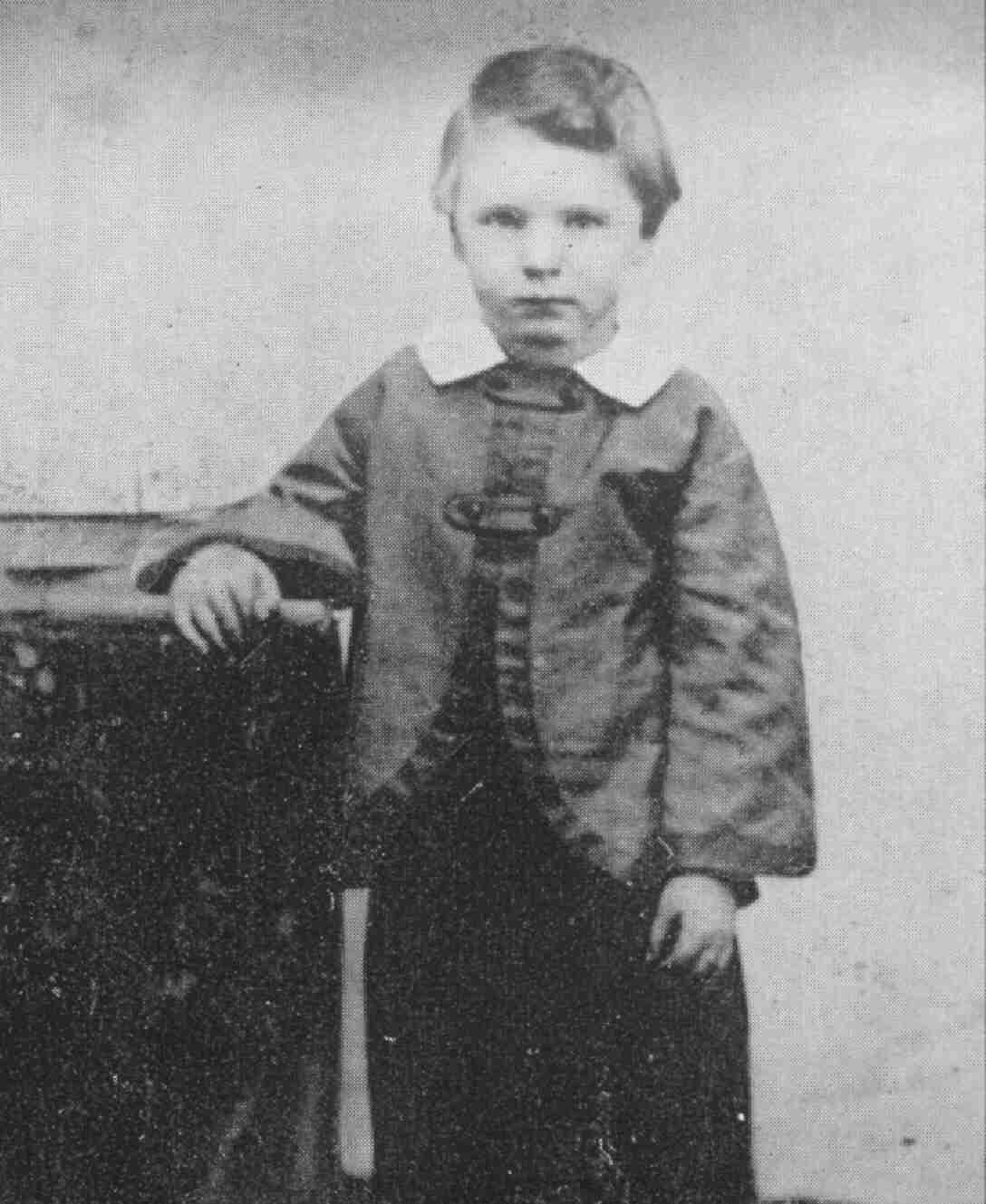 Photograph of William "Willie" Wallace Lincoln, Abraham Lincoln's son. Taken from: This claim can be verified by a Google search - there are multiple sources stating that the subject pictured is indeed Willie Lincoln